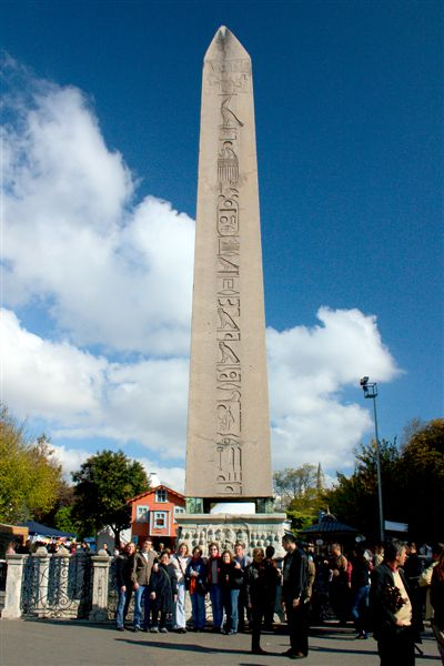 Hippodrome Oblisk. The Obelisk of Tuthmosis III, Istanbul, Turkey.